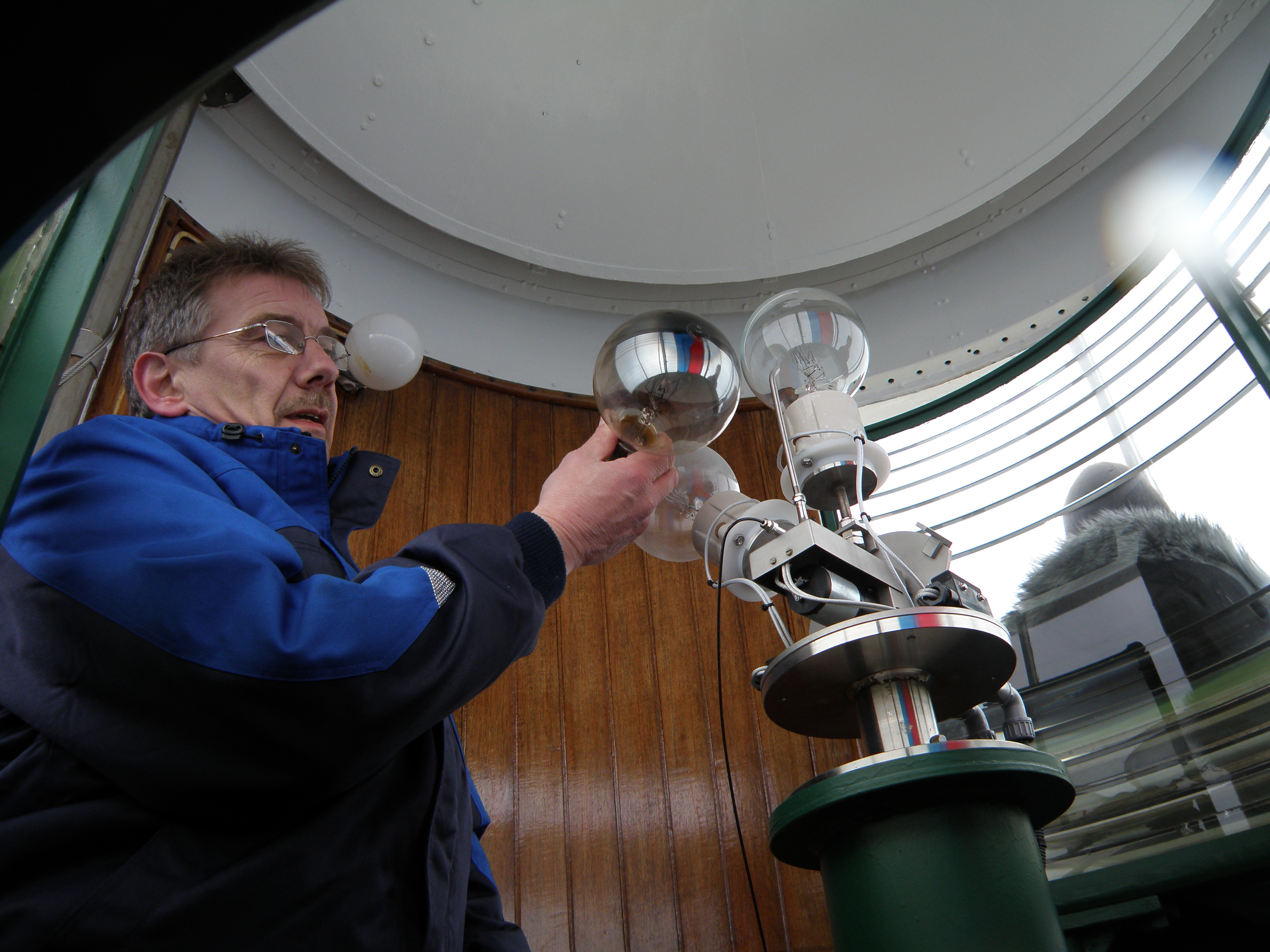 The lighthouse keeper Hans Petur Kjærbo is changing the bulbs in the lighthouse of Akraberg, which is the southernmost place in Suðuroy and in the Faroe Islands, except for Flesjarnar (scerries). He lived in Akraberg for some years, but moved away after the Christmas hurricane in Dec. 1988.